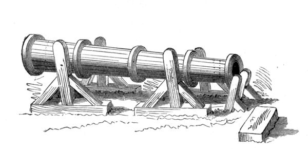 English gun used at Crecy